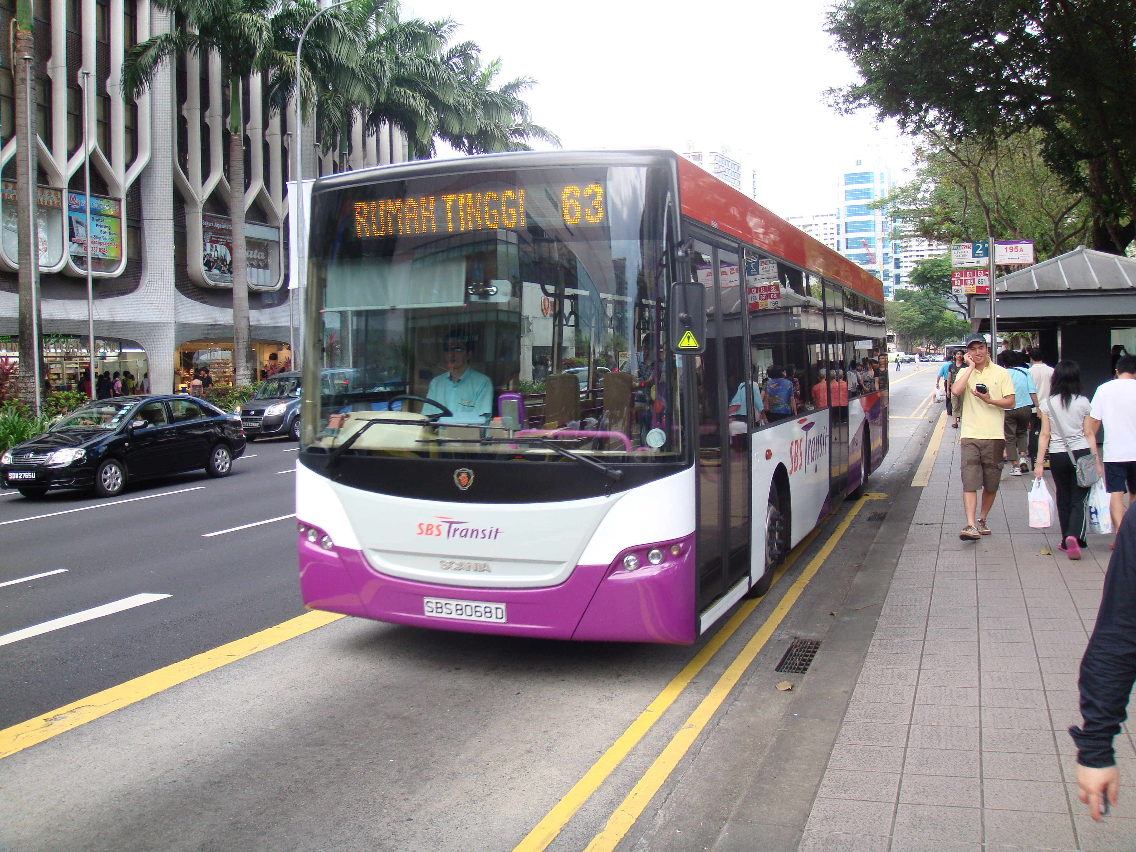 SBS Transit's Gemilang bodied Scania K230UB Euro 4 (SBS8068D, built 2007) at outside City Hall MRT Station, Singapore.